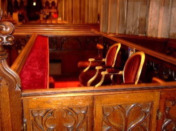 Irish President's pew at St Patrick's Cathedral, Dublin. Picture taken 4pm. no copyright